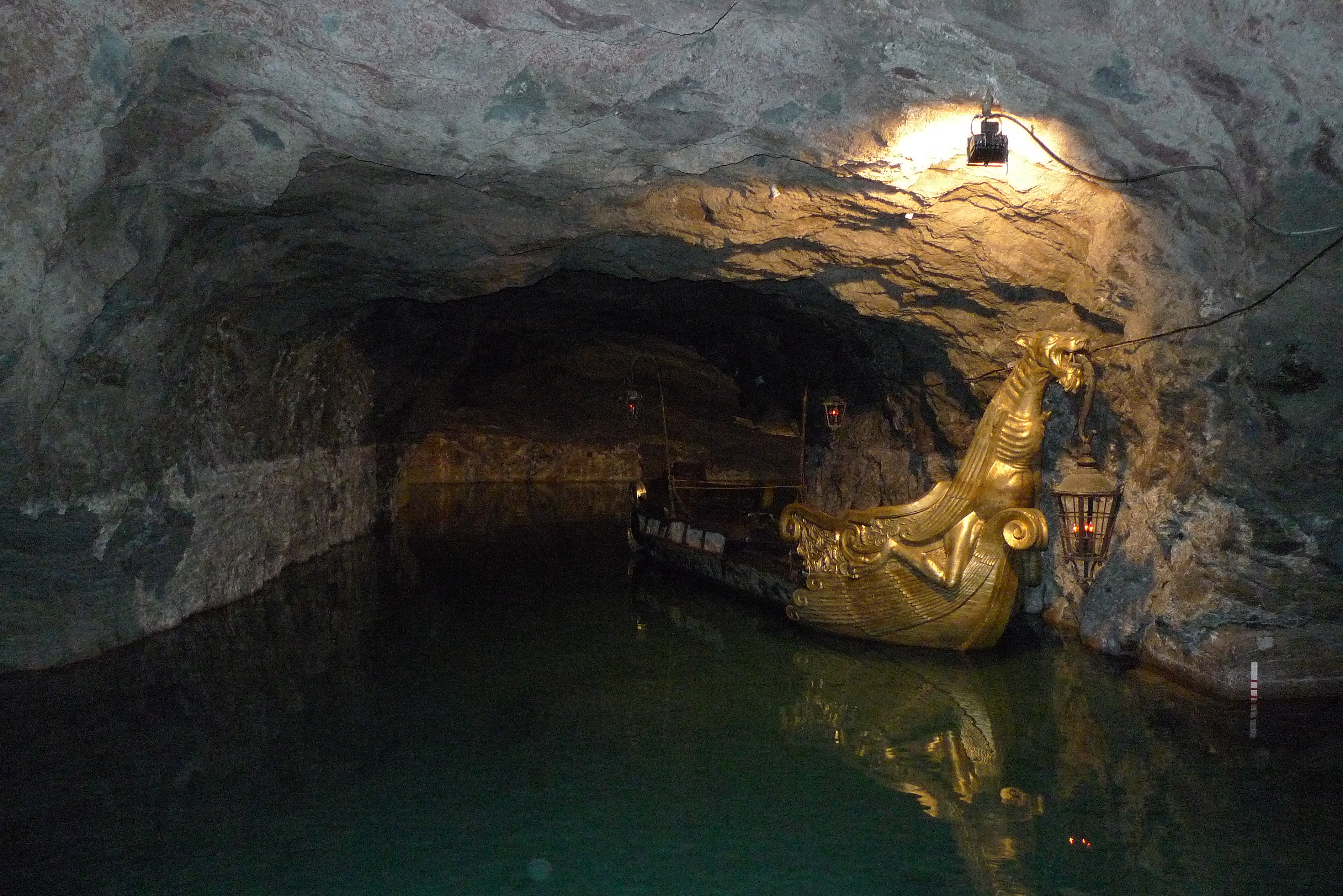 Former mine Seegrotte in Hinterbrühl, Lower Austria - boat from movie Three Musketeers.